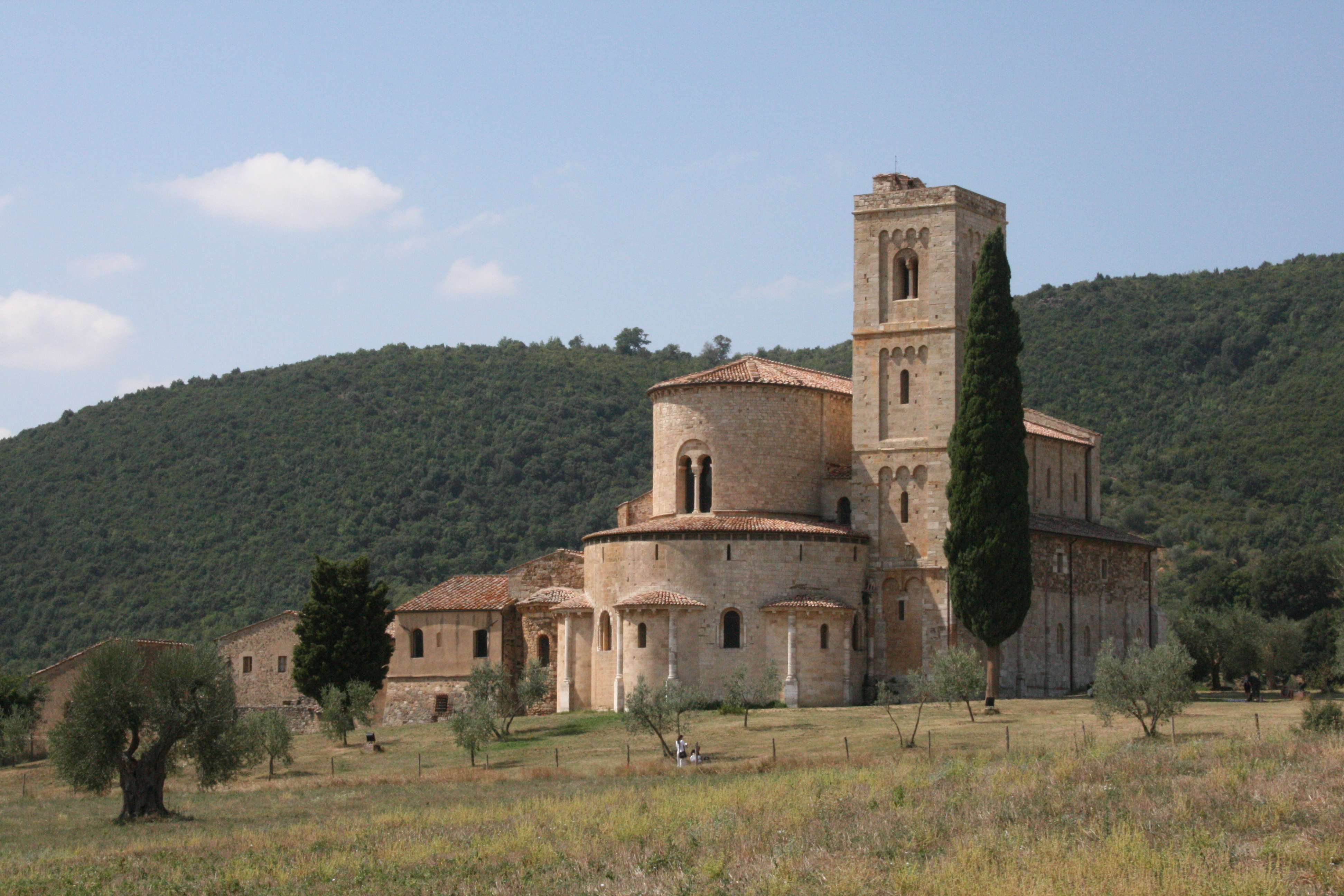 abbey Sant`Antimo near Montalcino, Tuscany, Italy